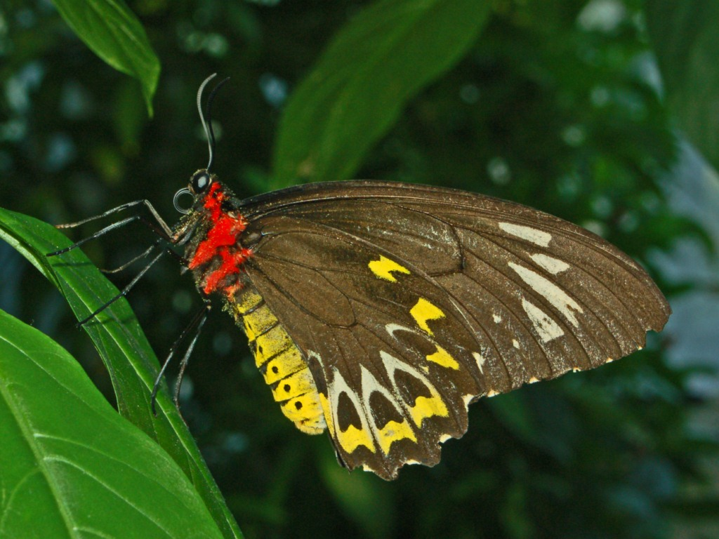 Troides euphorion - Niagara Falls Conservatory